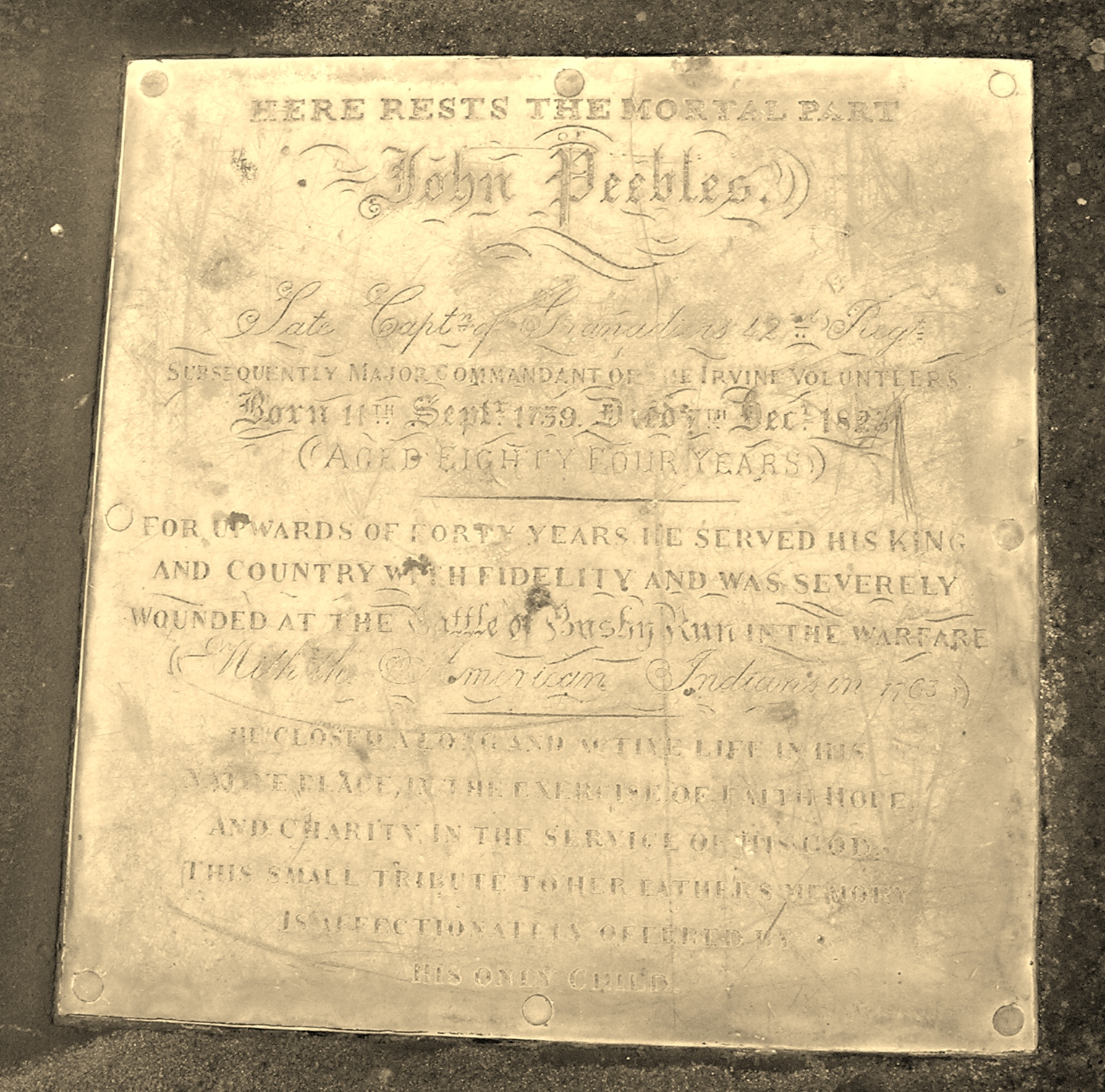 John Peebles, Captain of Grenadiers, Major of the Irvine Volunteers. Fought and wounded at the Battle of Bushy Run in 1763.